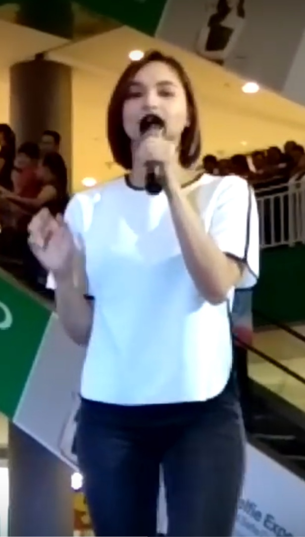 Ryza Cenon performing on her mall tour at Gaisano Mall of Davao.